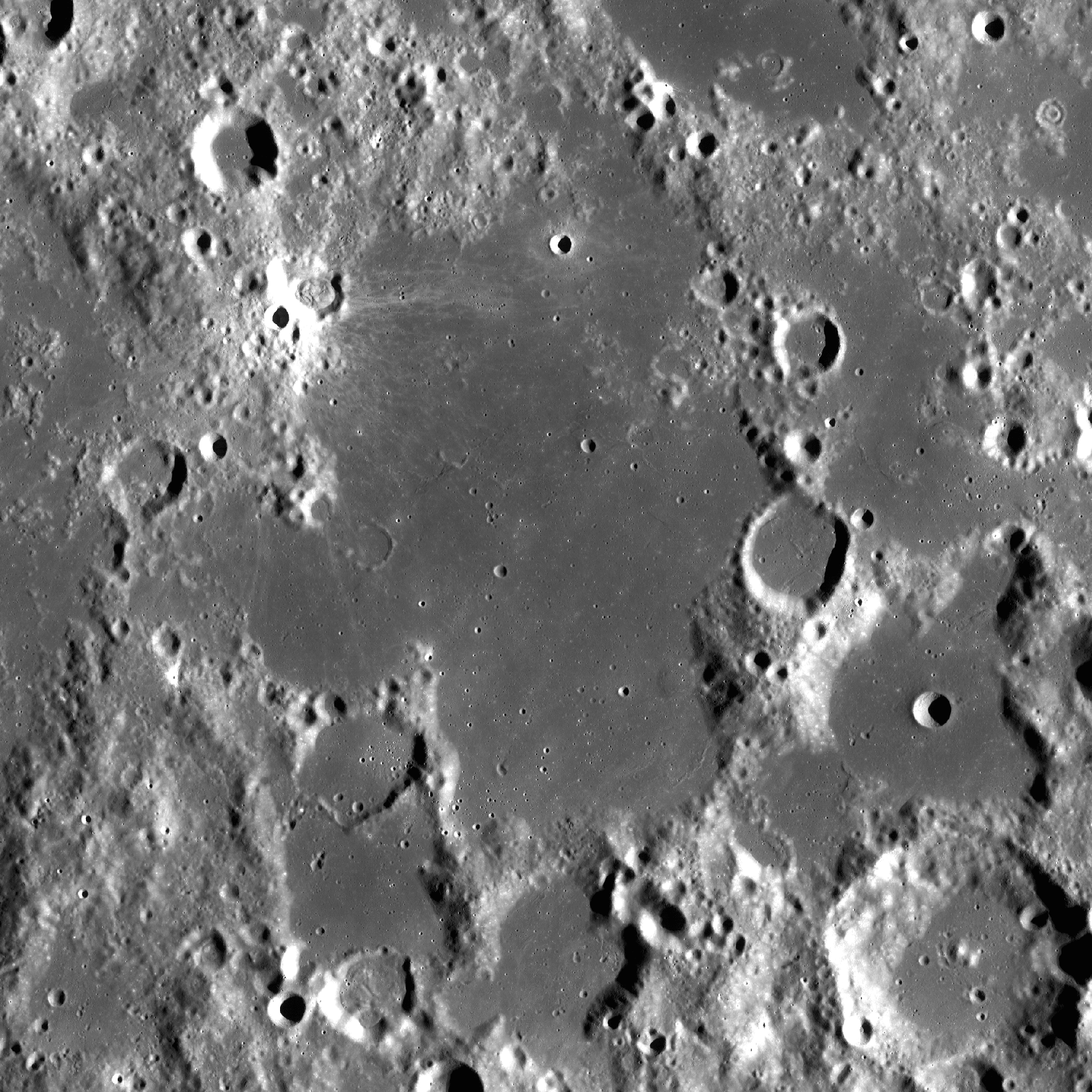 Mare Spumans on the Moon. Mosaic of photos by Lunar Reconnaissance Orbiter, made with Wide Angle Camera. Size of the image is 220×220 km, north is up.